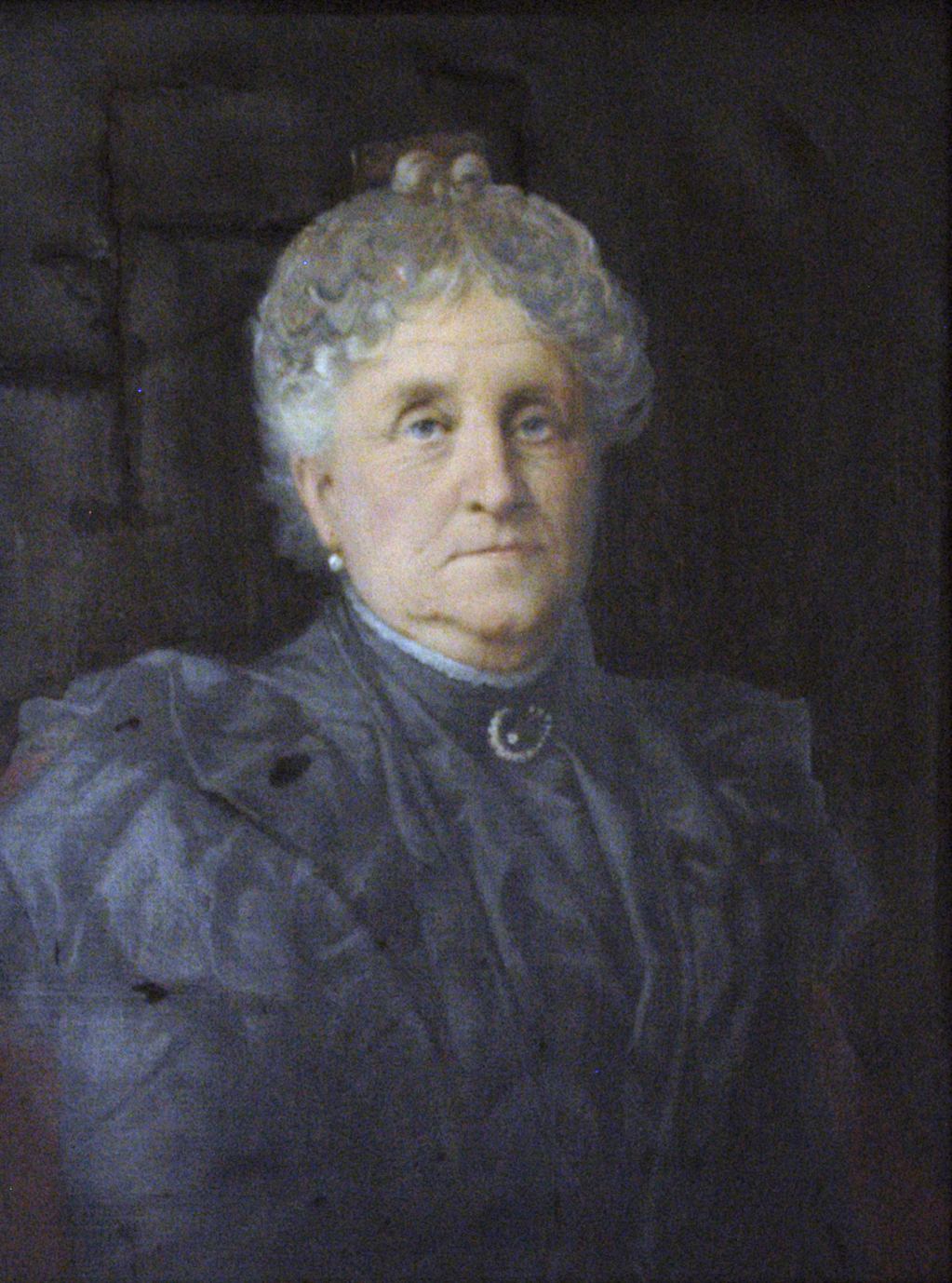 Portrait of Isabella Shaw, wife of Seth Shaw, by his brother Stephen W. Shaw, California '49er and San Francisco Portrait Painter. Seth and Isabella Shaw lived in the Shaw House (Ferndale, California), the first post office and courthouse of Ferndale as well as their private residence. Mr. Shaw was postmaster and justice of the peace as well as an active Mason. Original painting is about 18 x 20 inches on canvas. Note damage repair following vandalism while portrait hung in the Shaw house during the 1960s. Painting is in private collection; removed from wall and photographed with permission of owner and descendant of Mrs. Shaw.